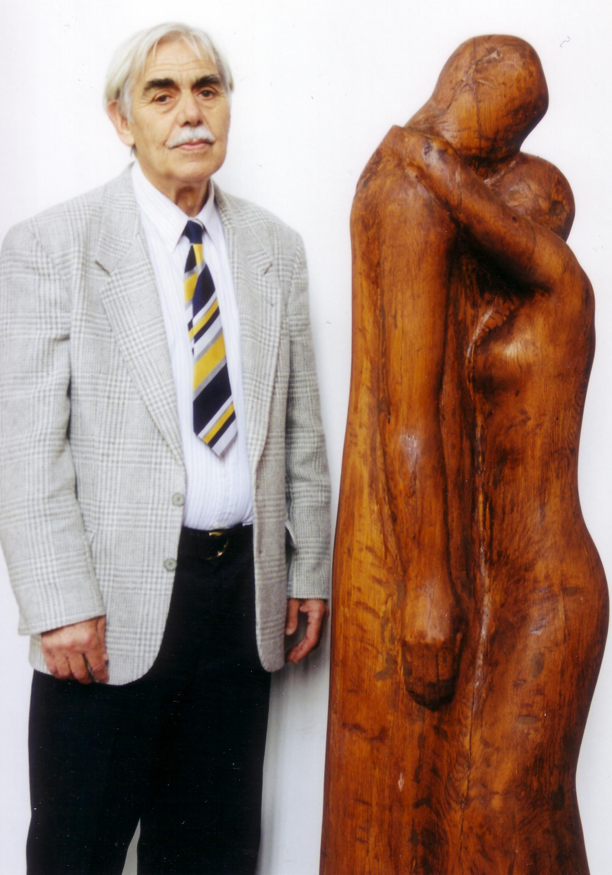 Russian sculptor Valentin Galochkin — and his work "The two". At the 2001 Symposium of wooden sculpture, Wismar, Germany)